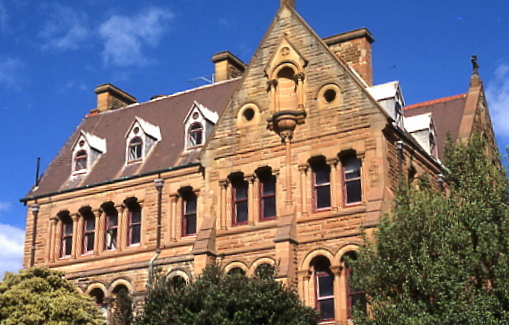 Catholic Friary demolished in 1985, Waverly, Sydney